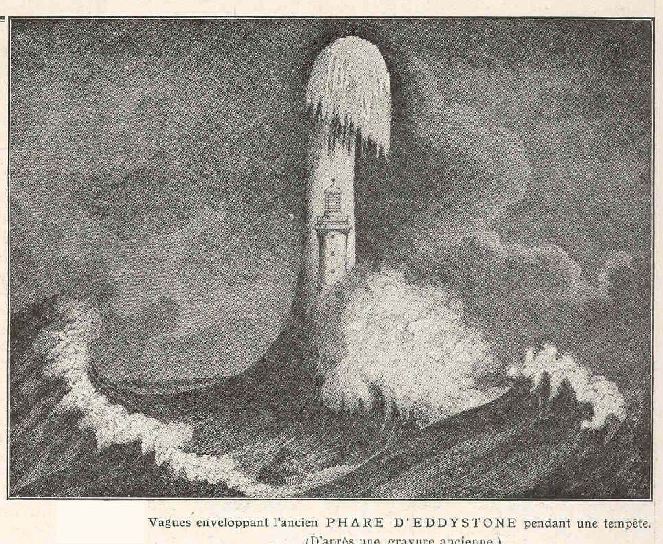 d'Apres une Gravure Ancienne Subject: Eddystone Lighthouse, Lighthouses--England, Ocean waves Geographic Subject: England--Eddystone Tag: Coasts